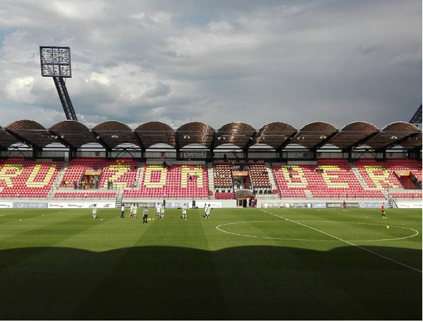 Stadium pod Cebratom